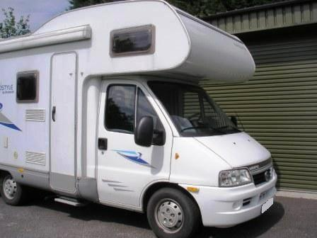 A Motorhome